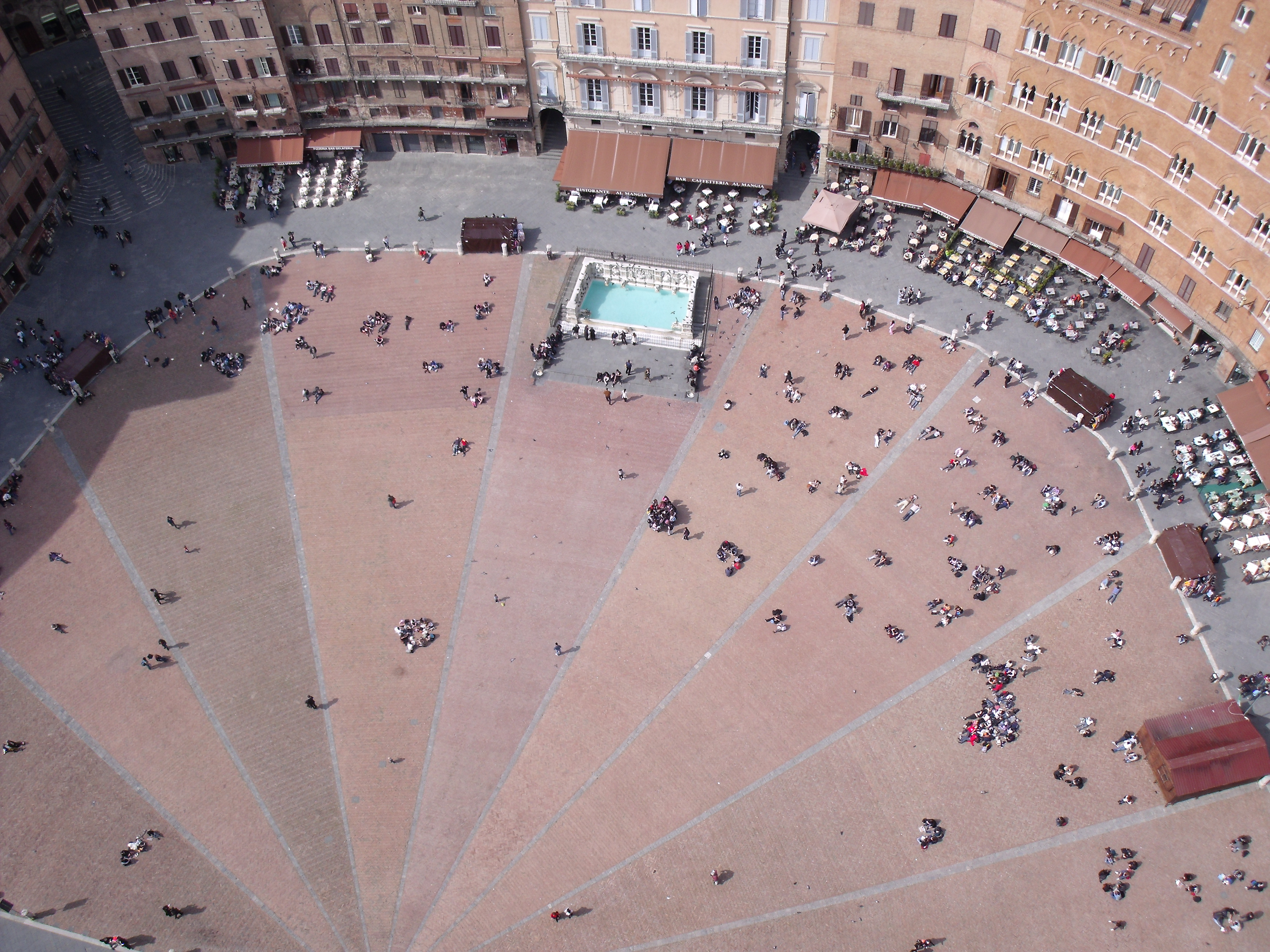 A picture taken from the top of the Torre del Magnia of the Campo in Siena